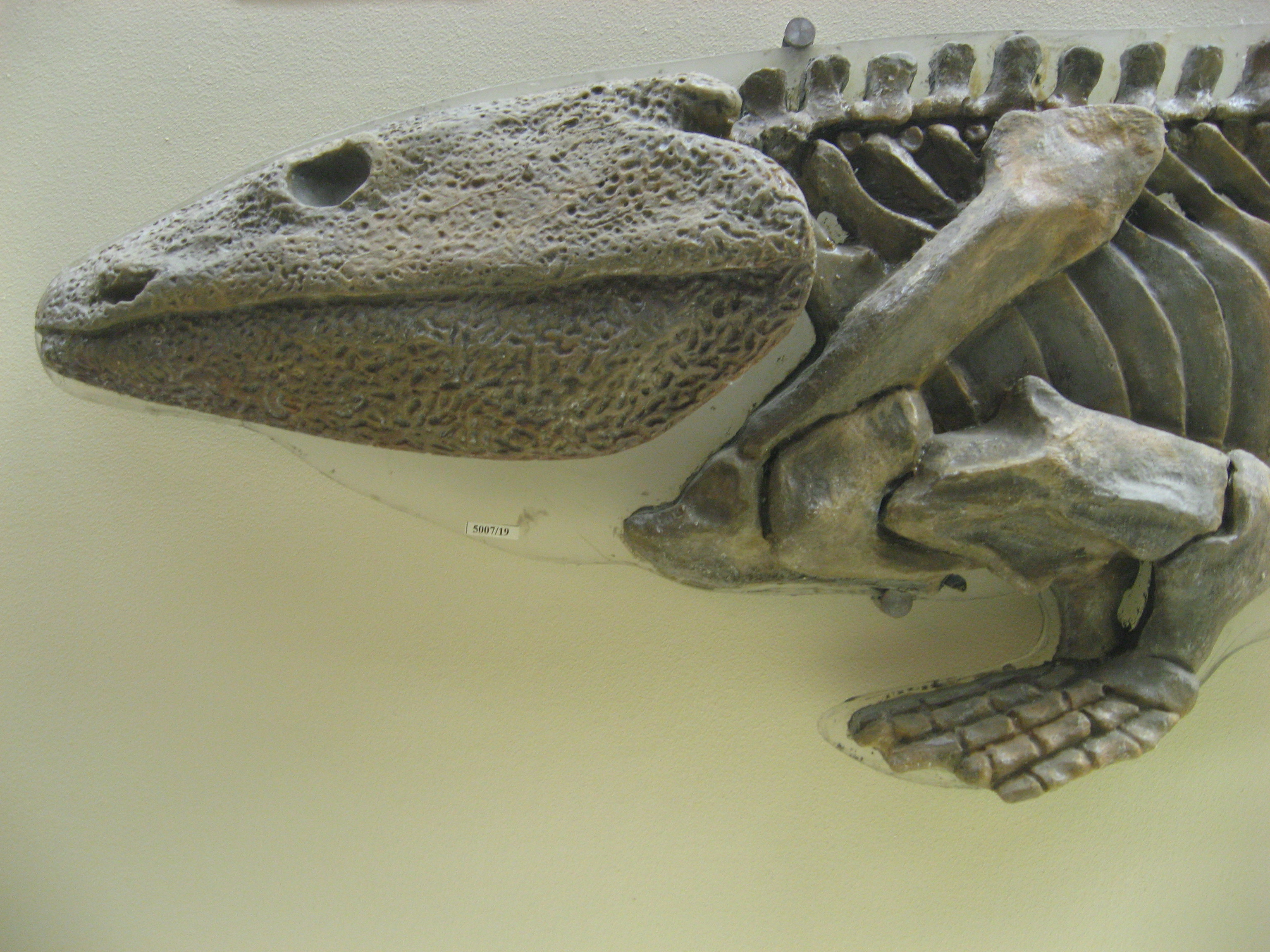 Skeleton of Ichthyostega in Moscow Paleontological Museum